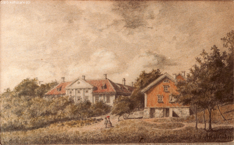 Särö seat farm in Släp Parish, Kungsbacka Community, Halland, Sweden